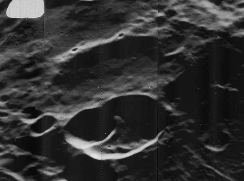 Oblique view of Stetson crater, on the far side of the moon, facing west.